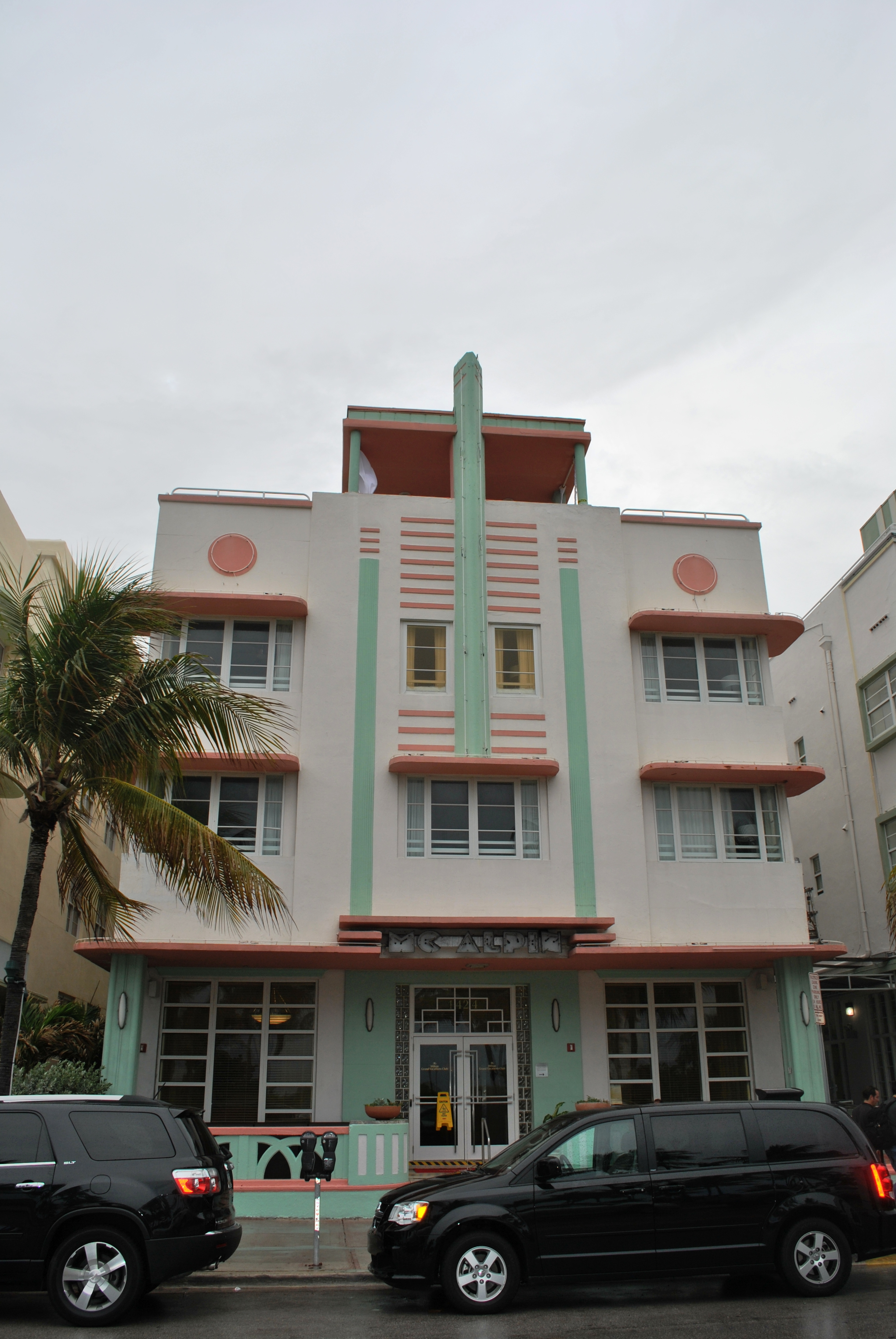 Miami Beach Architectural District